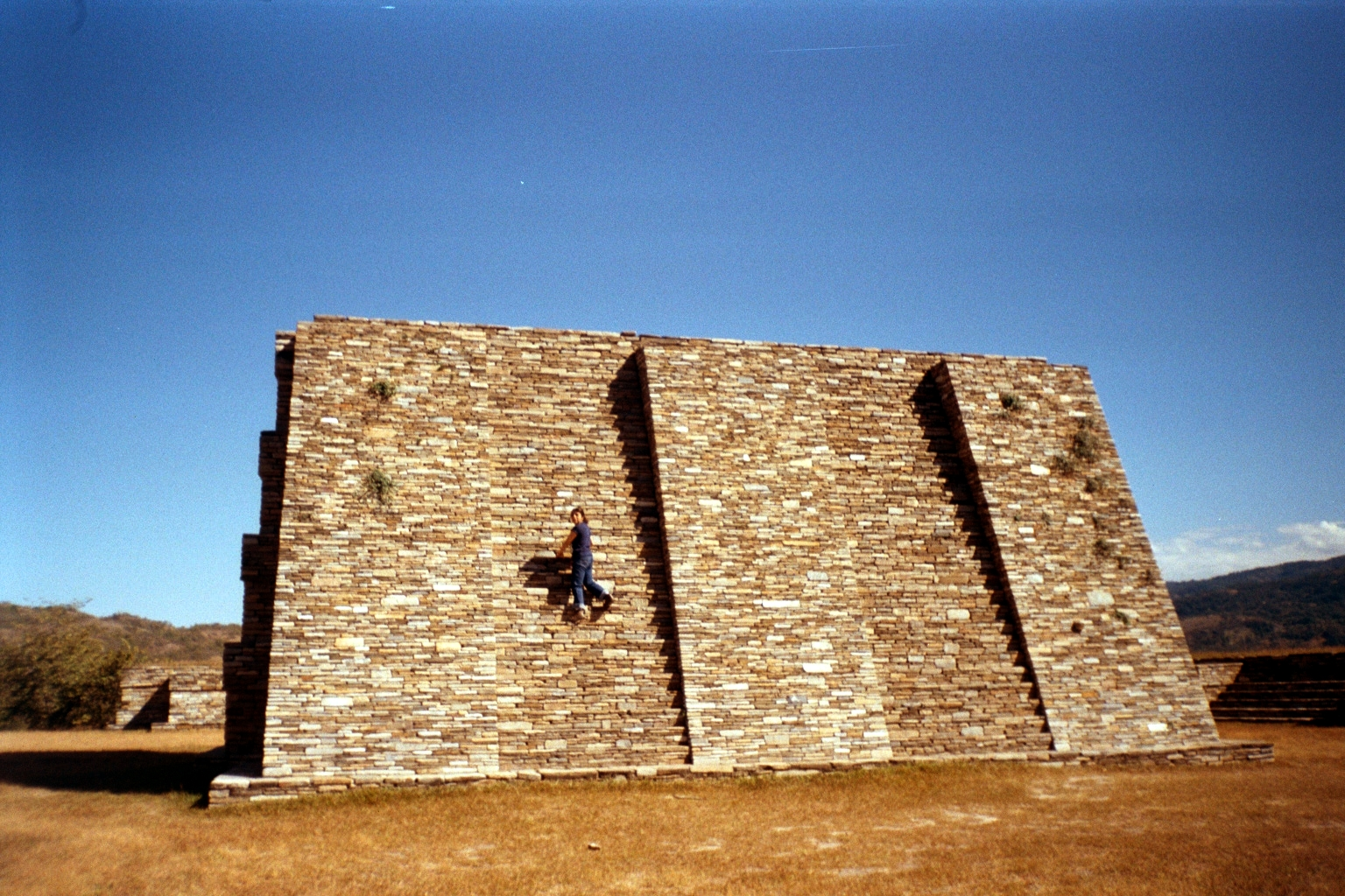 Pyramid A 1 at Mixco Viejo, Chimaltenango Department, Guatemala.